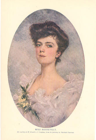 Alice Roosevelt's formal portrait by the classical French academic painter, Théobald Chartran (1849-1907). Painted around 1901, when her father, Theodore Roosevelt, became president. From my personal collection.